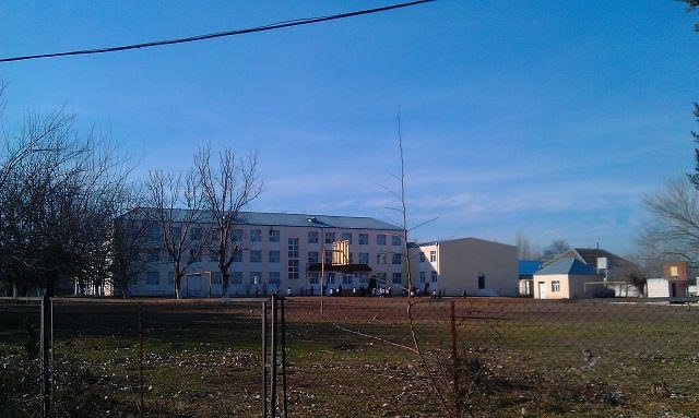 Dallayar Jirdakhan village school after Shahin Amirov